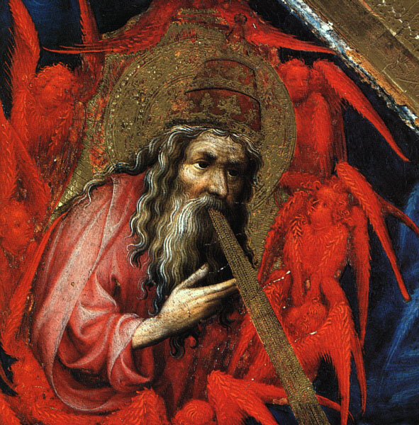 detail: The Divine Breath